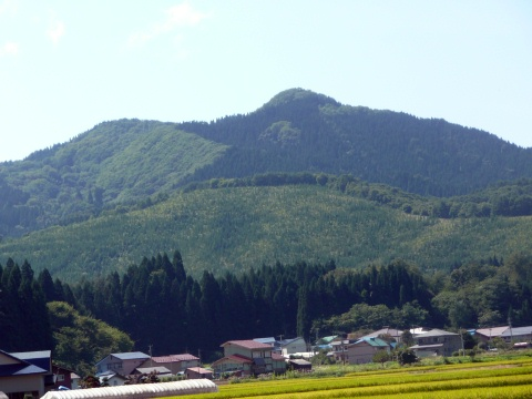 Mount Teppachimori seen from the NE, in Kazuno, Akita Prefecture, Japan.